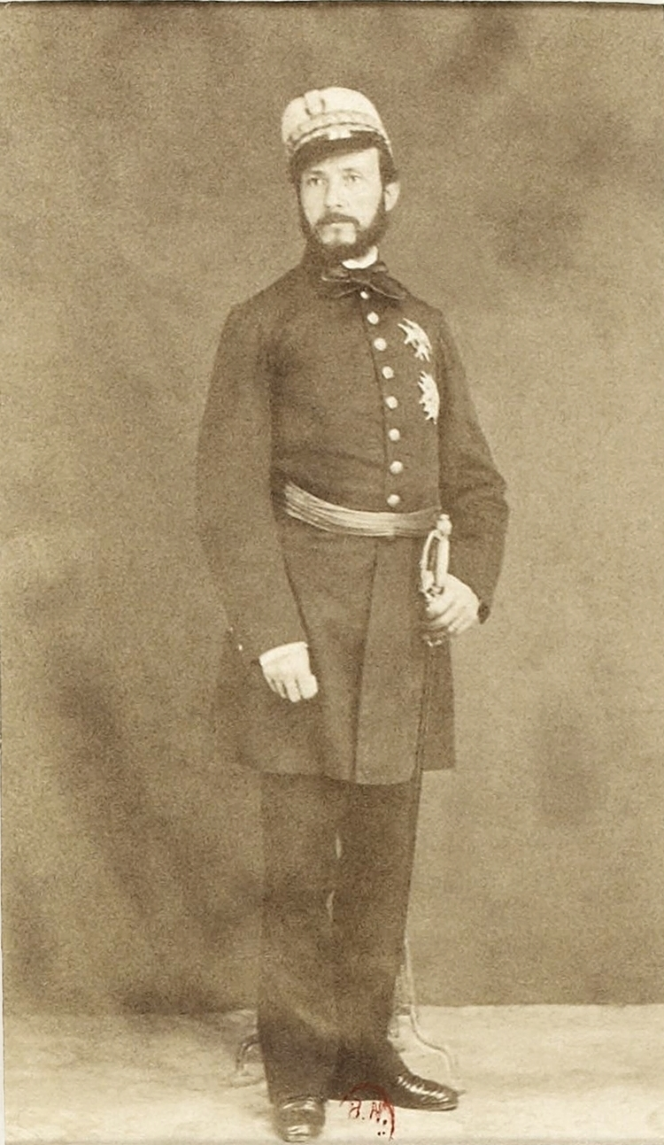 The spanish general Juan Prim (1814-1870)